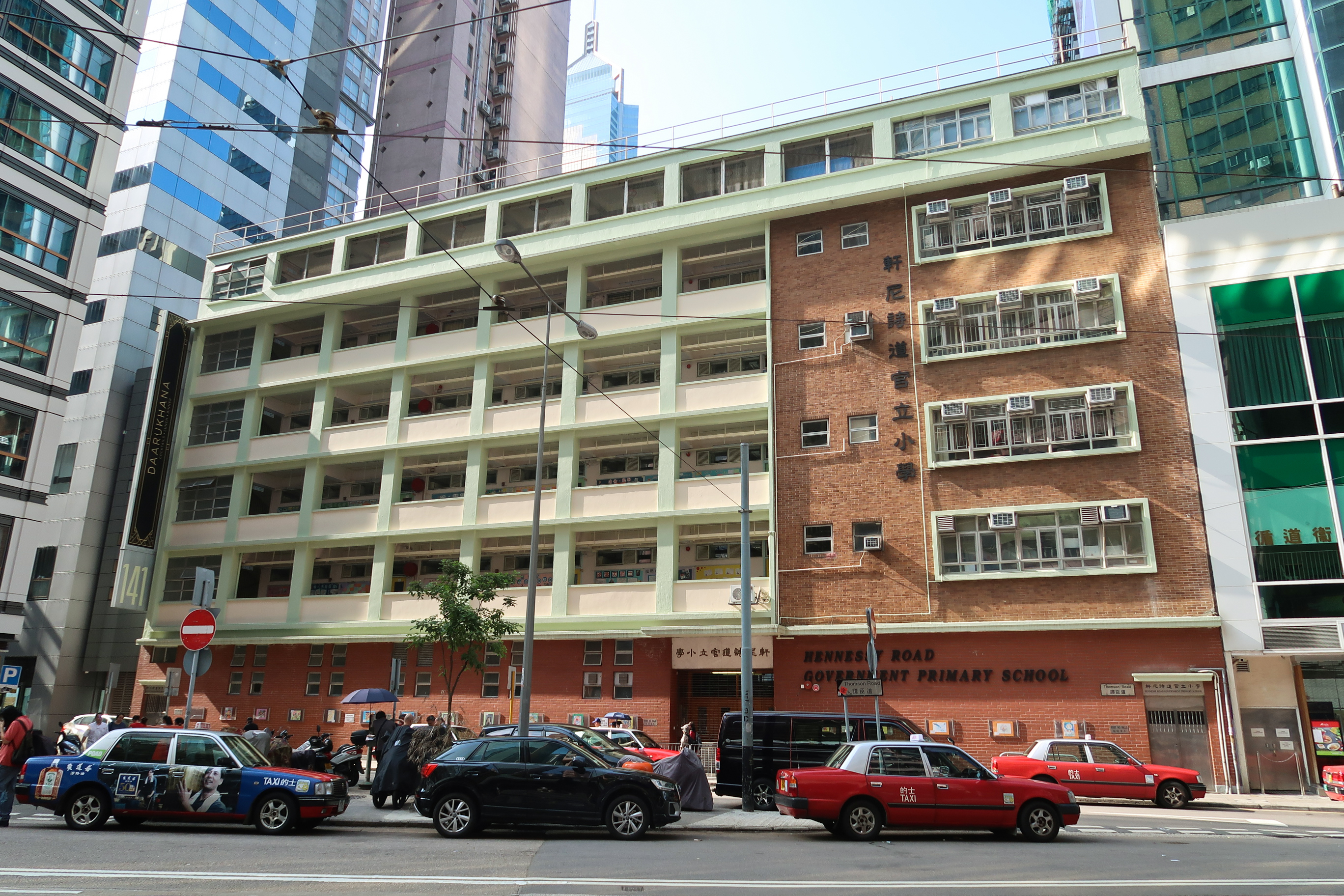 Hennessy Road Government Primary School